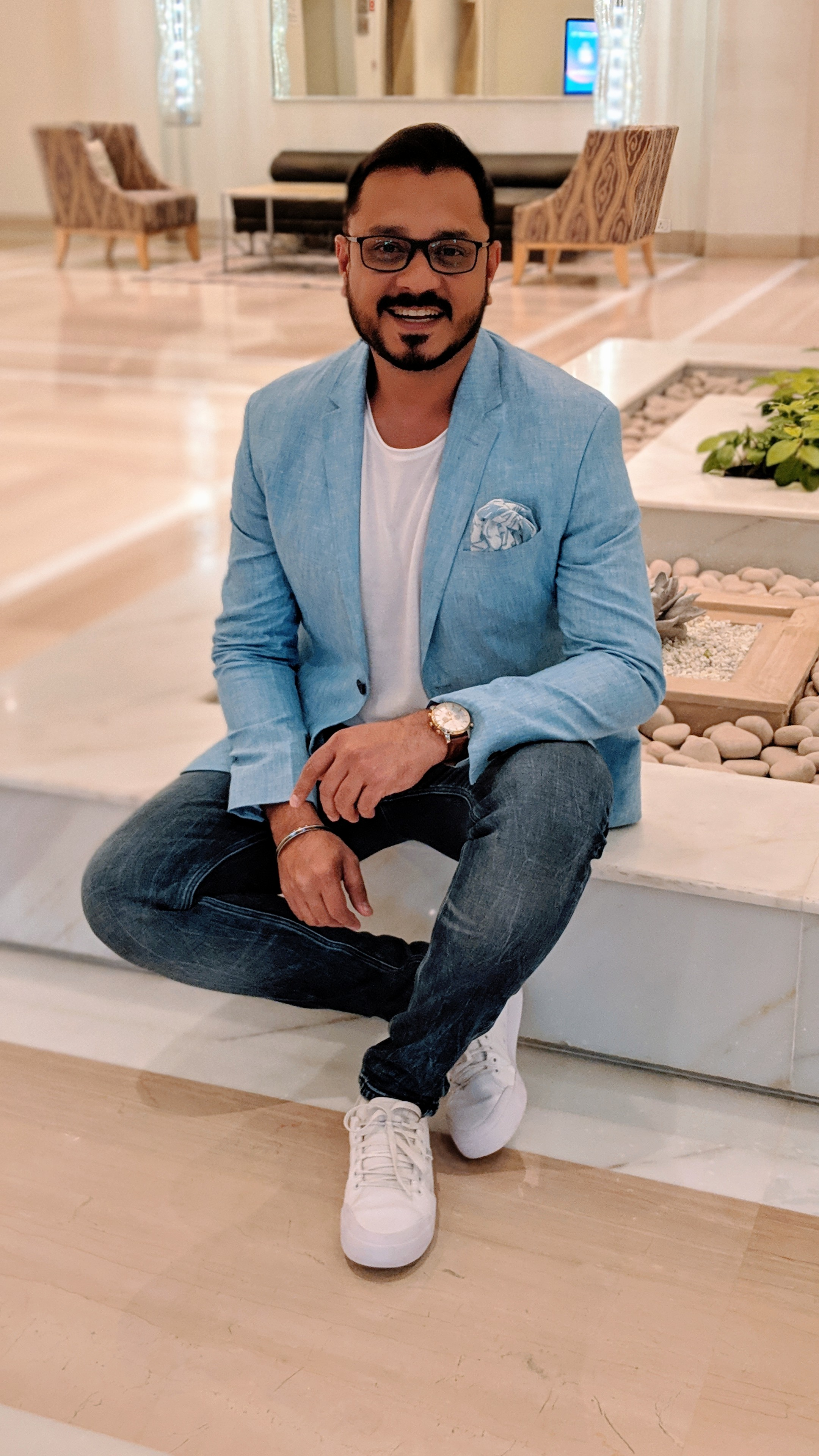 Picture of Anuj Gurwara